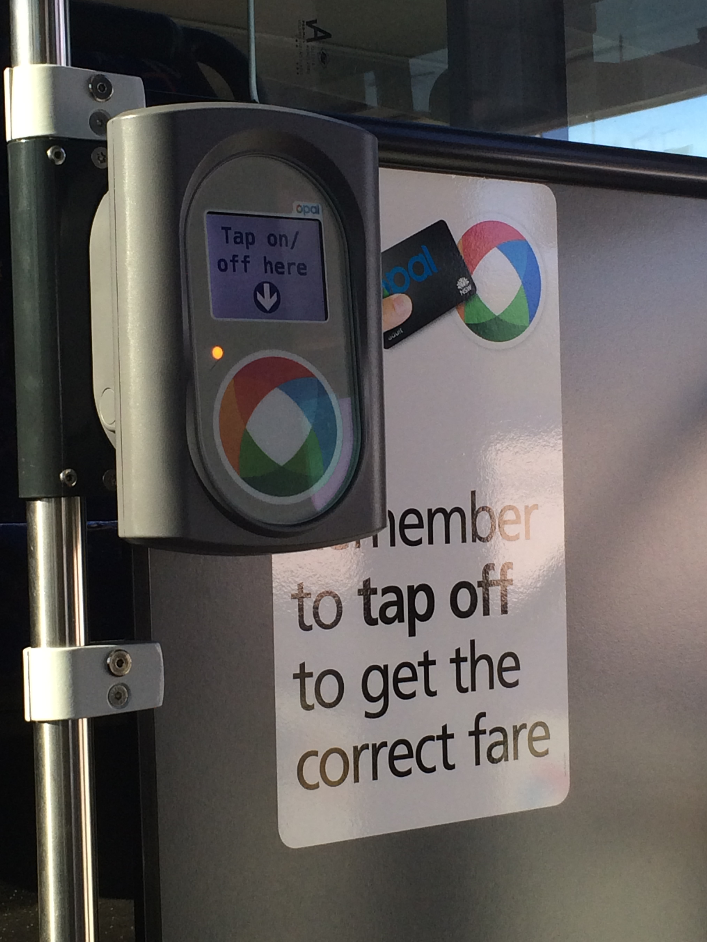 This is the reader for the Opal Card that is used on buses, which is placed at the front entrances and centre exits of buses.